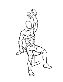 an exercise of triceps